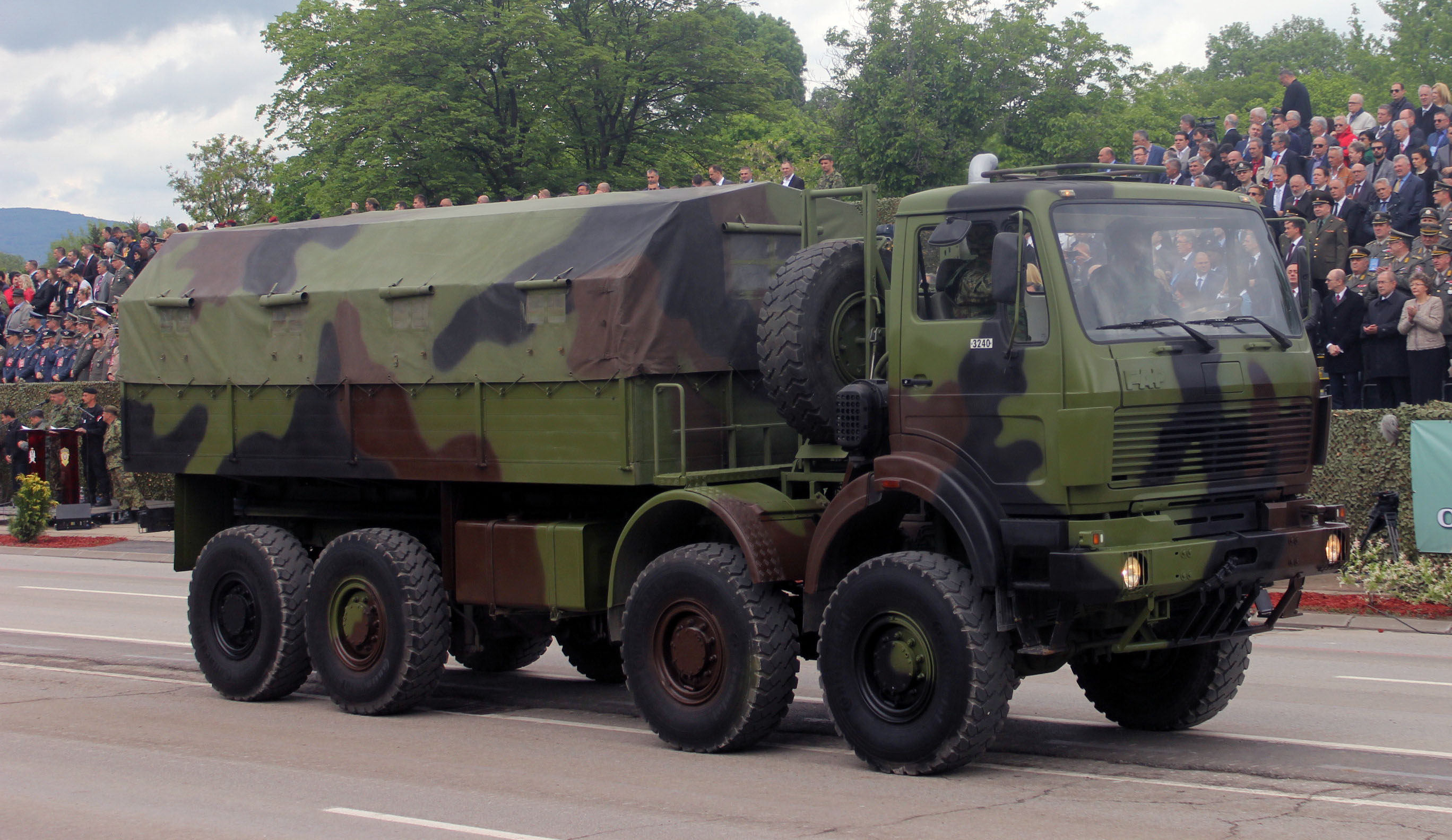 FAP 3240 BS/AV 8x8 heavy military truck of Serbian Army at military parade in Niš.